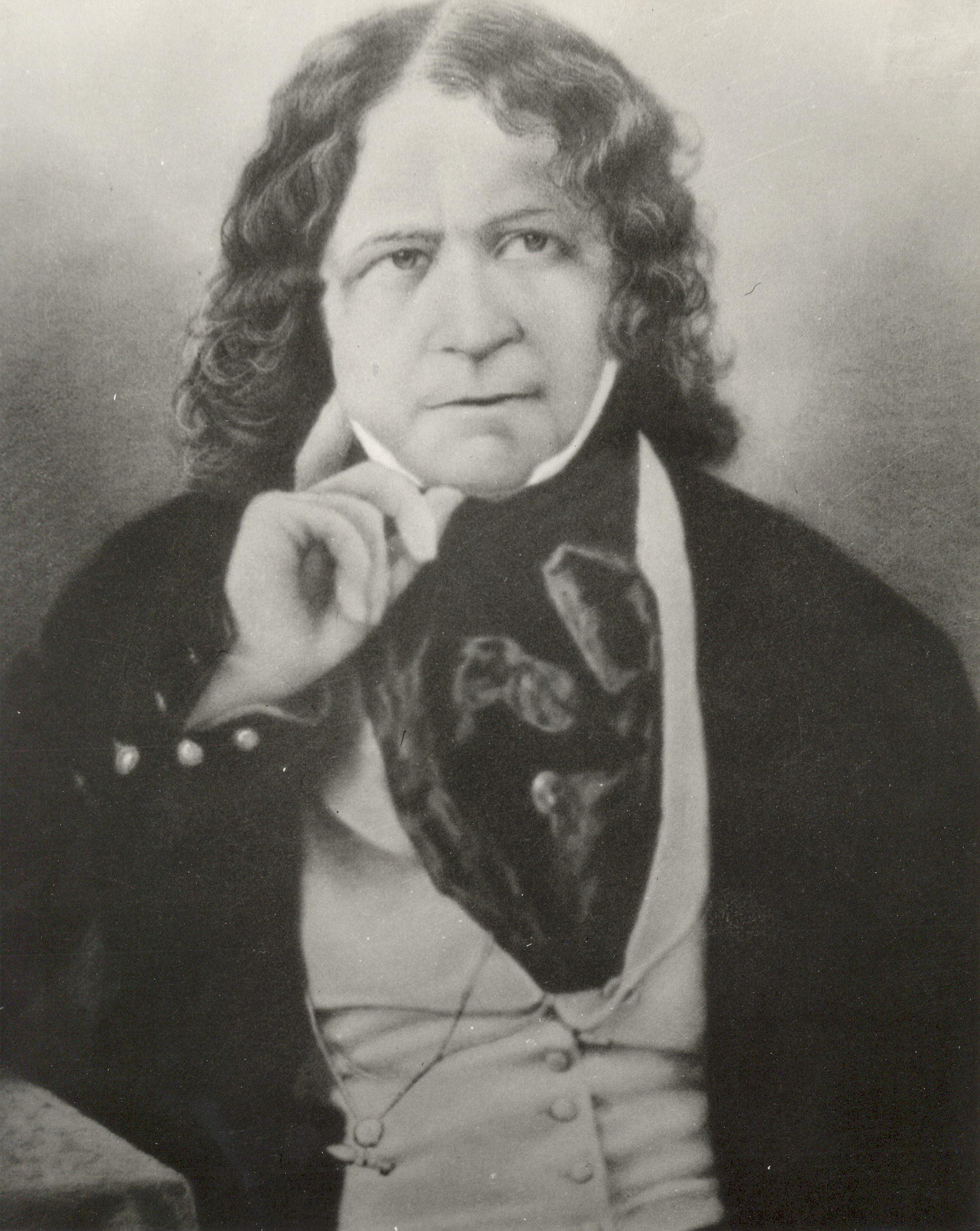 William Paul Crillon Barton (17 November 1786 - 3 March 1856), a medical botanist, physician, professor, naval surgeon, and botanical illustrator. He served as the head of the Navy Medical Department from 1842 to 1844.